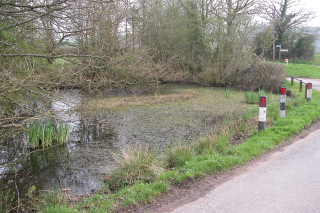 Pond at Bolstone Pond on the road junction near Bolstone Cout Farm.